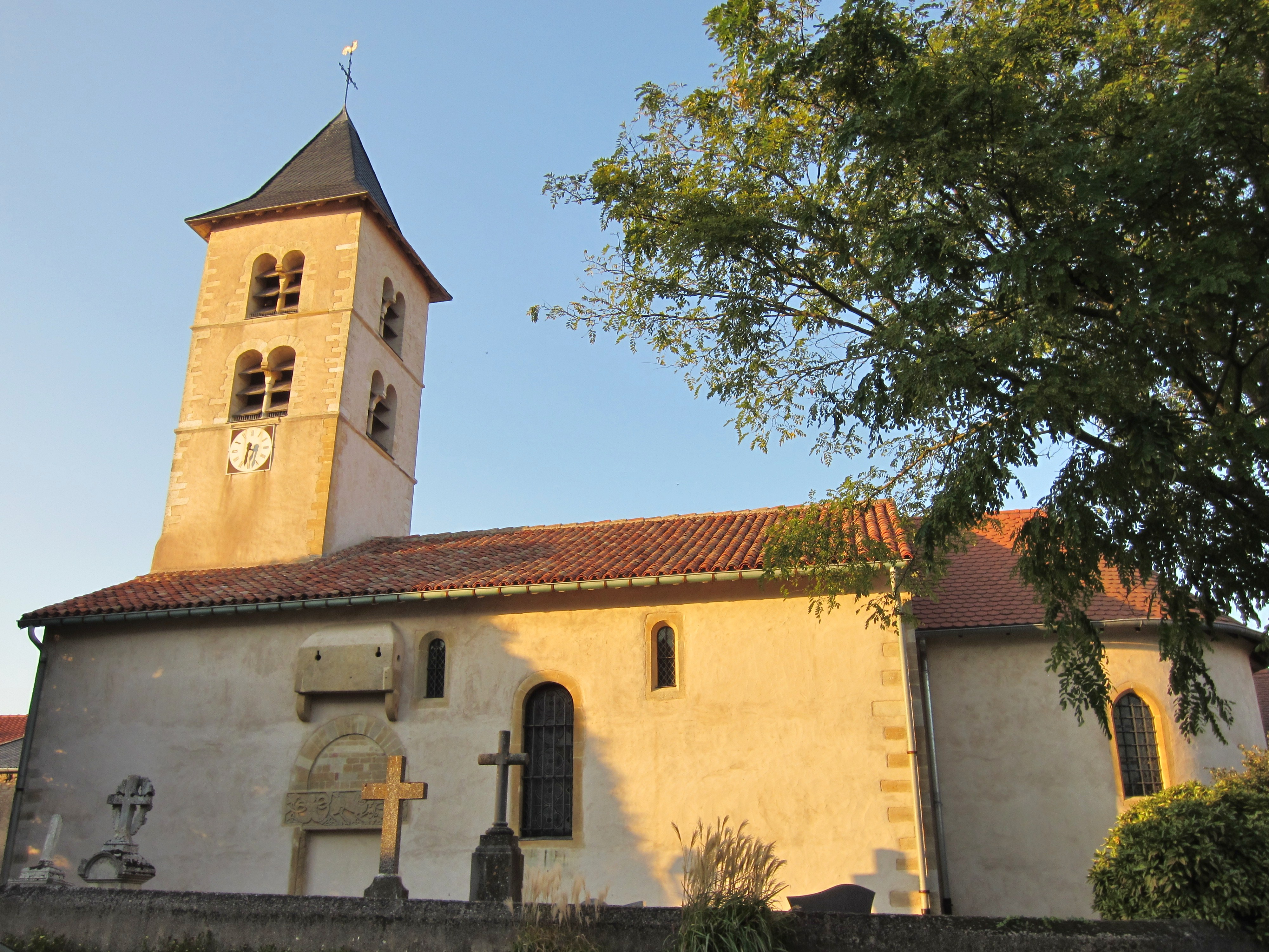 Description eglise Mey Date27 September 2011Sourcemon appareil photoAuthorAimelaimePermission (Reusing this file) eglise Mey